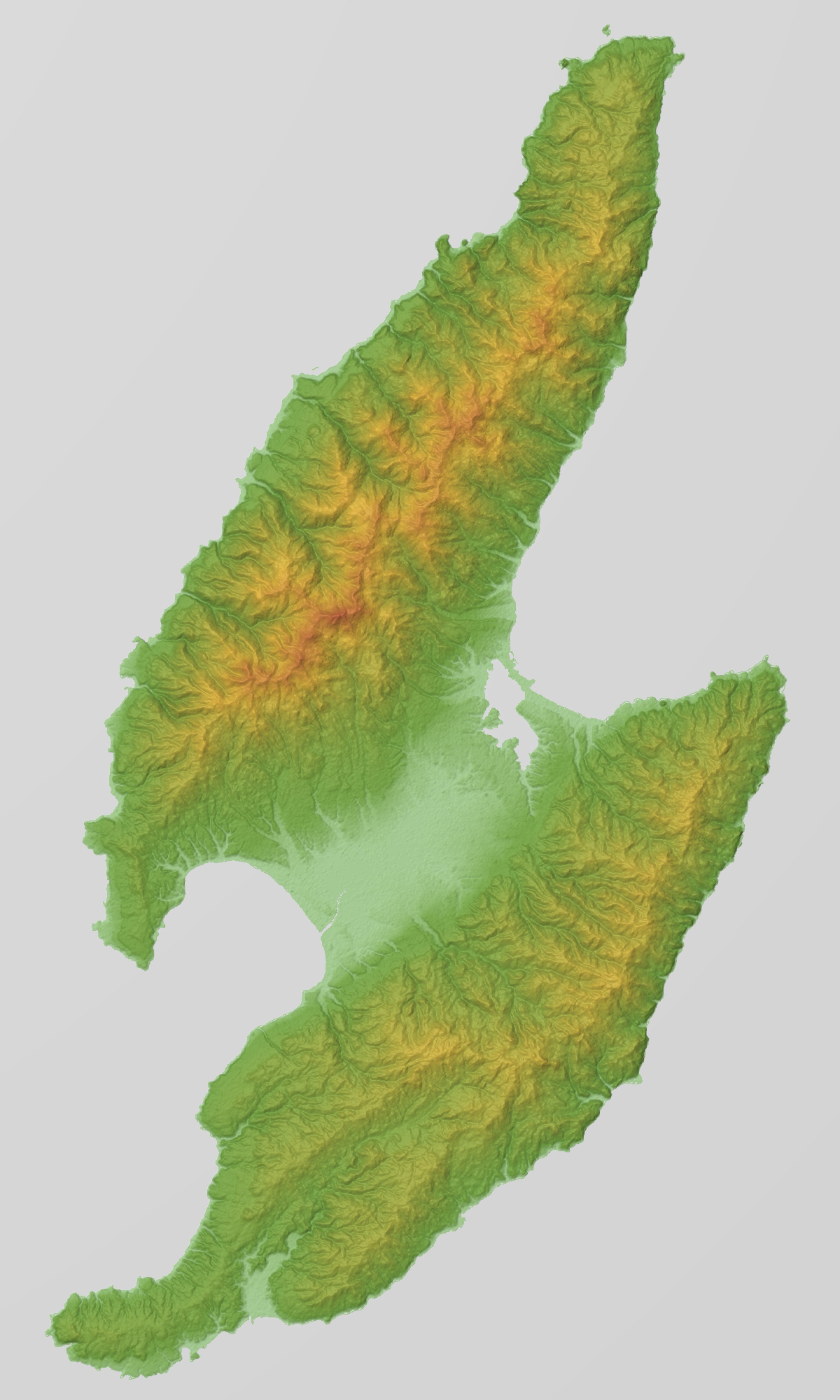 Sadogashima (Sado Island) in Niigata Prefecture, Japan.